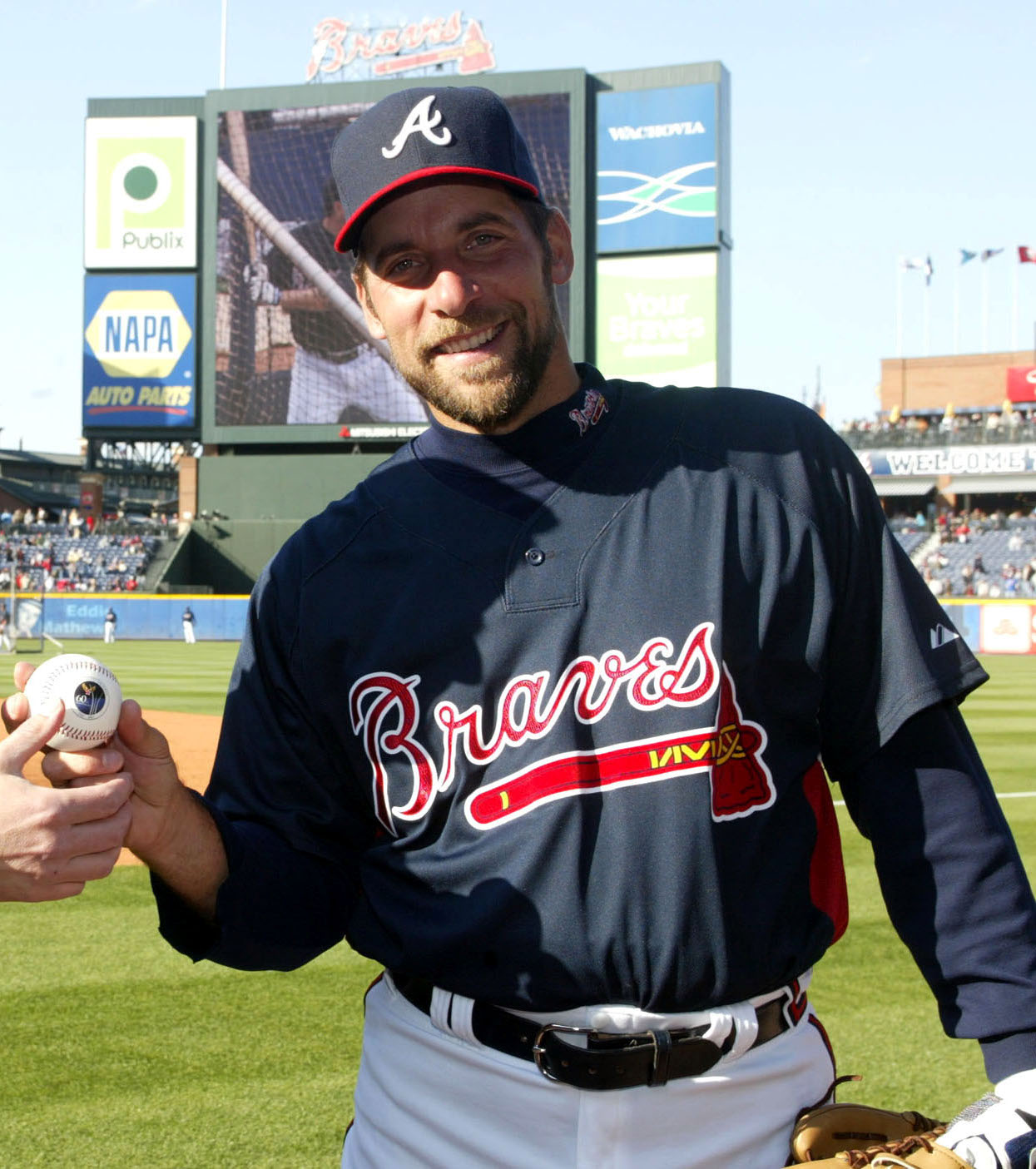 Cropped version of photo of Atlanta Braves pitcher John Smoltz (originally pictured with Colonel Nuckolls, commander of the Air Force Reserve's 94th Airlift Wing at Dobbins Air Reserve Base, GA)